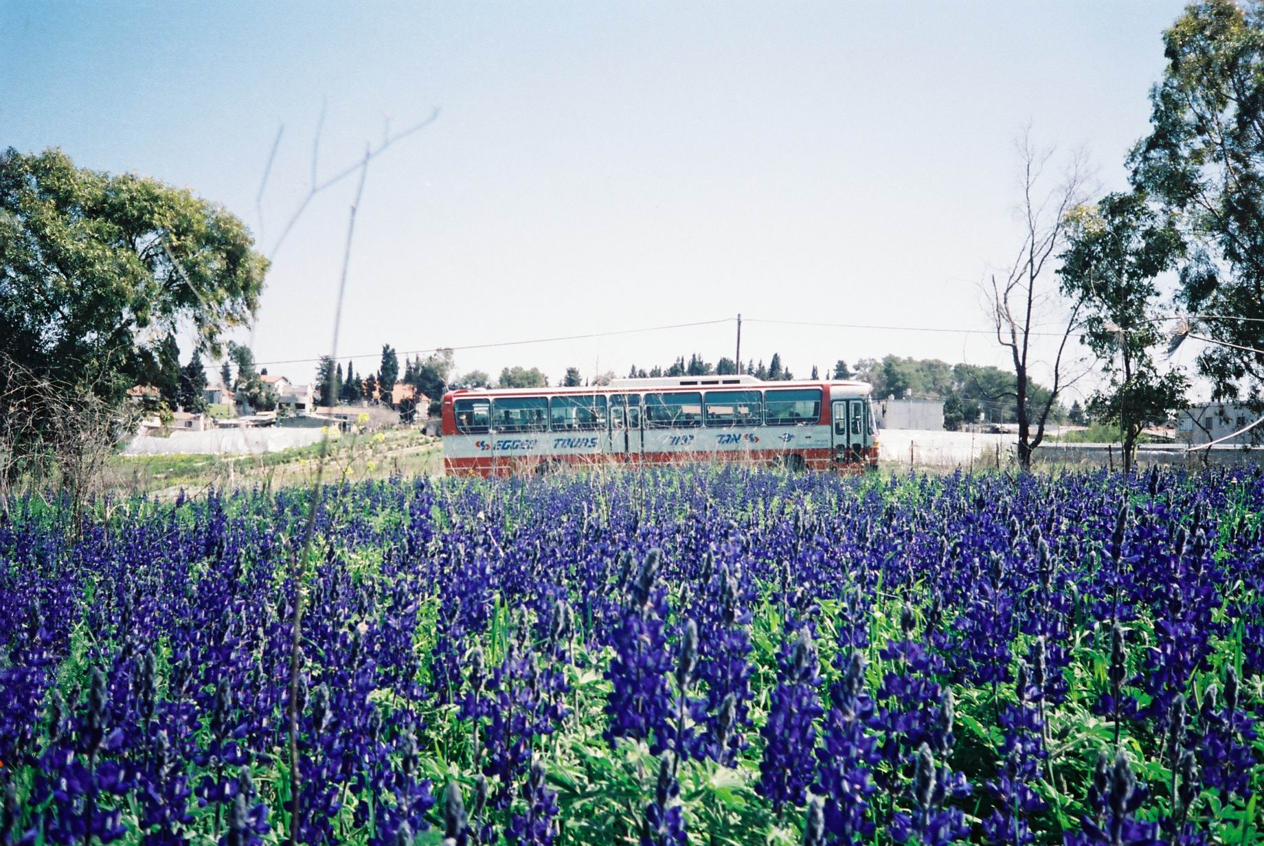 Transport in Israel